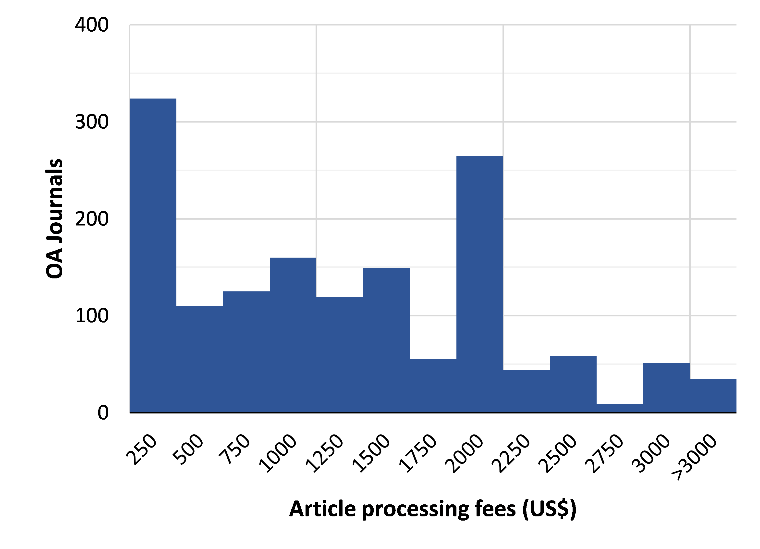 Article Processing Charges for 1504 Gold OA journals in DOAJ (data from 2019). Ref